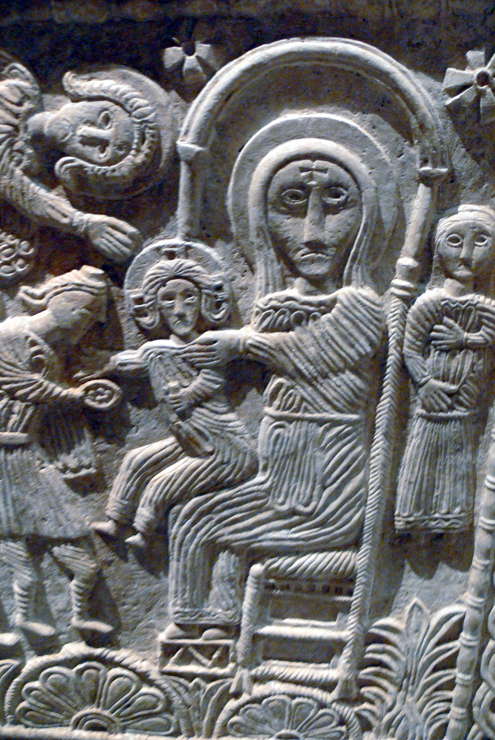 Cividale, Italy. Museo Cristiano: Rachis altar - Madonna and child ( detail ).